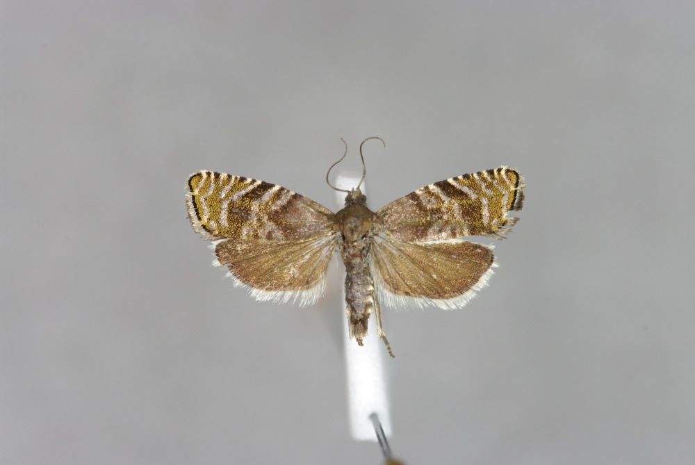 Cydia strobilella